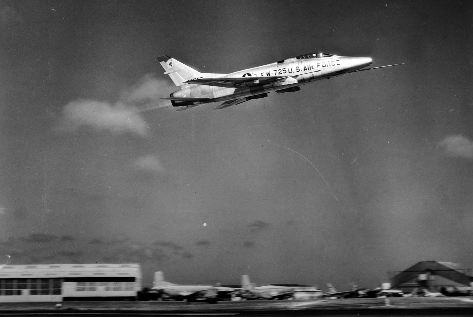 North American F-100C (SN 53-1725) takes off at Eglin Air Force Base